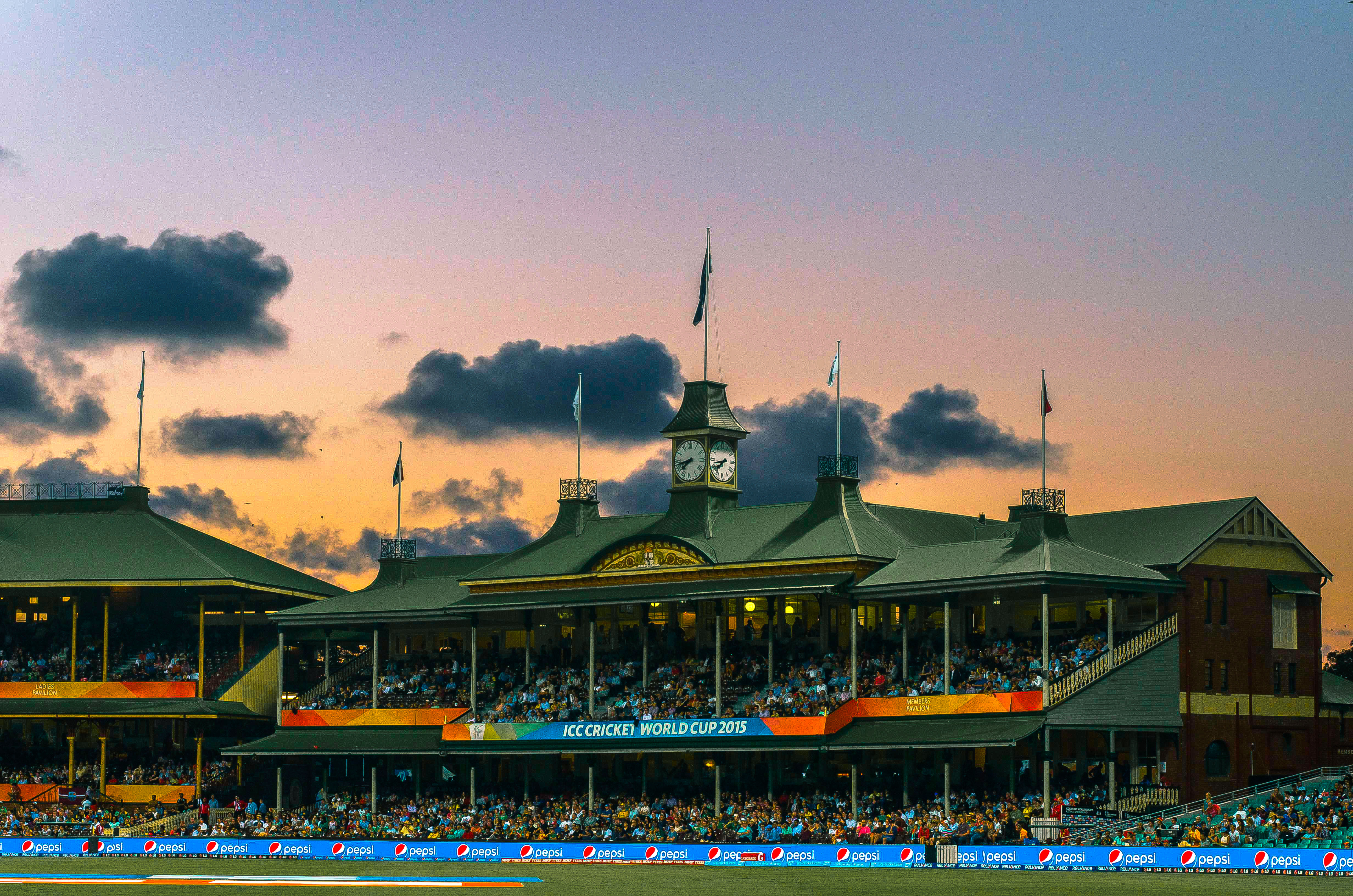 Caught at dusk, the prestigious members pavilion at the iconic Sydney Cricket Ground.